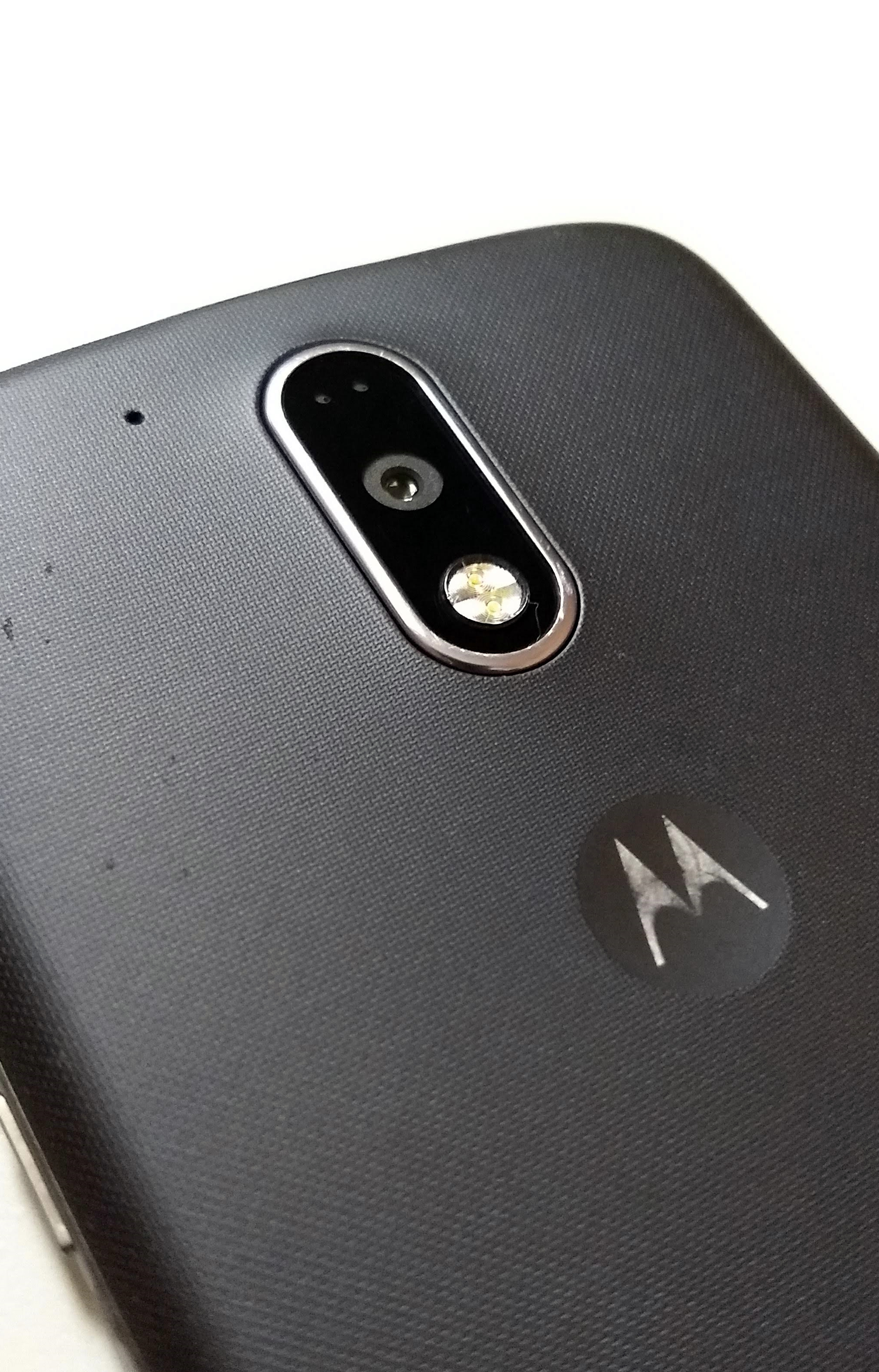 Moto G4 Plus XT1641 LATAM Model with 16 MP Camera